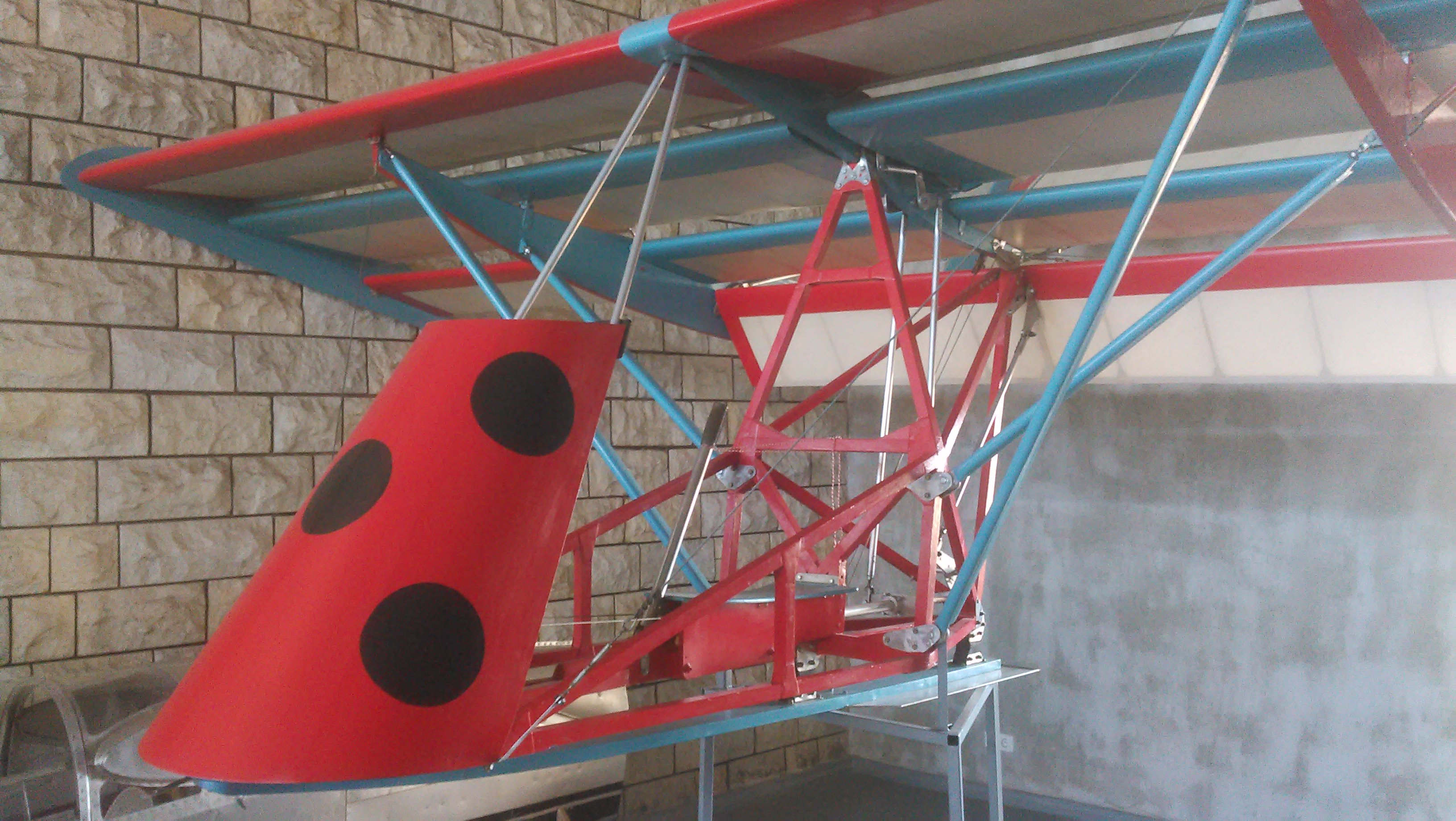 Glider BrO-18 "Boružė" by Lithuanian constructor Br.Oškinis, tested in 1975. It was smallest in the world at that time.